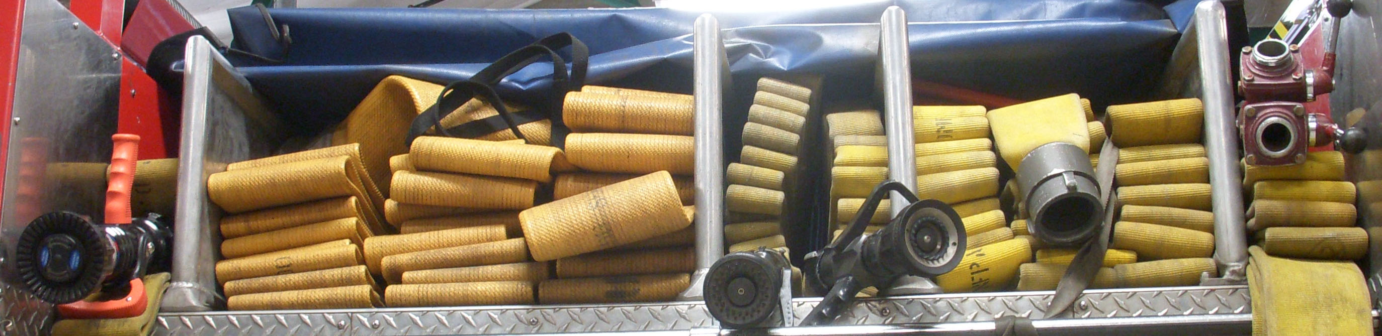 A closeup of the hose bed of a fire engine showing (from left to right) a 2 1/2" "blitz" line, a flat load of 5" supply hose, two "hotel bundles" of 1 3/4" attack line with attached nozzles, a flat load of 3" supply hose, and a 2 1/2" reverse lay with gated wye. Nozzles pulled to edge of hose bed for photo.